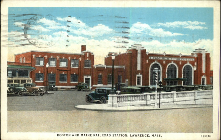 Postcard of the 1931-built station in Lawrence, Massachusetts. The station still stands today, although it was replaced with a modern parking garage a quarter mile east in 2005.